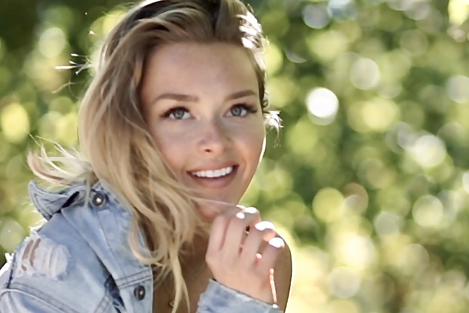 Camille Kostek in New York, July 2017